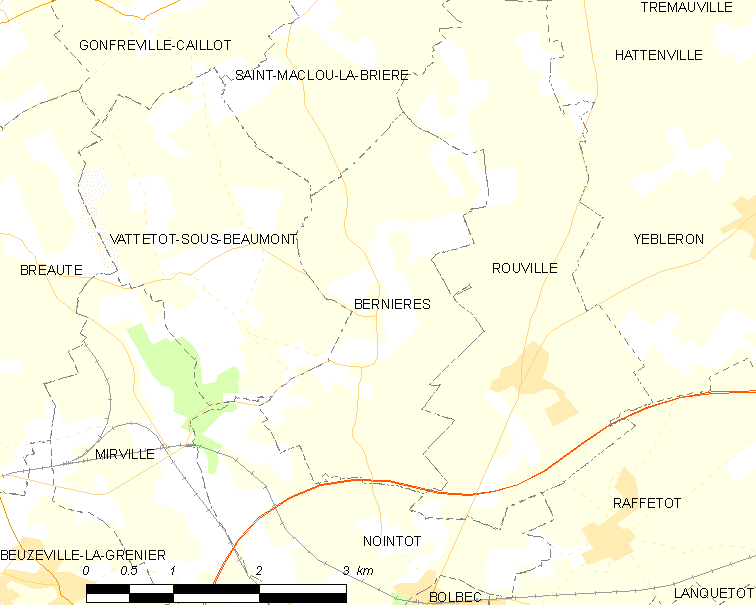 Map of French municipality Bernières